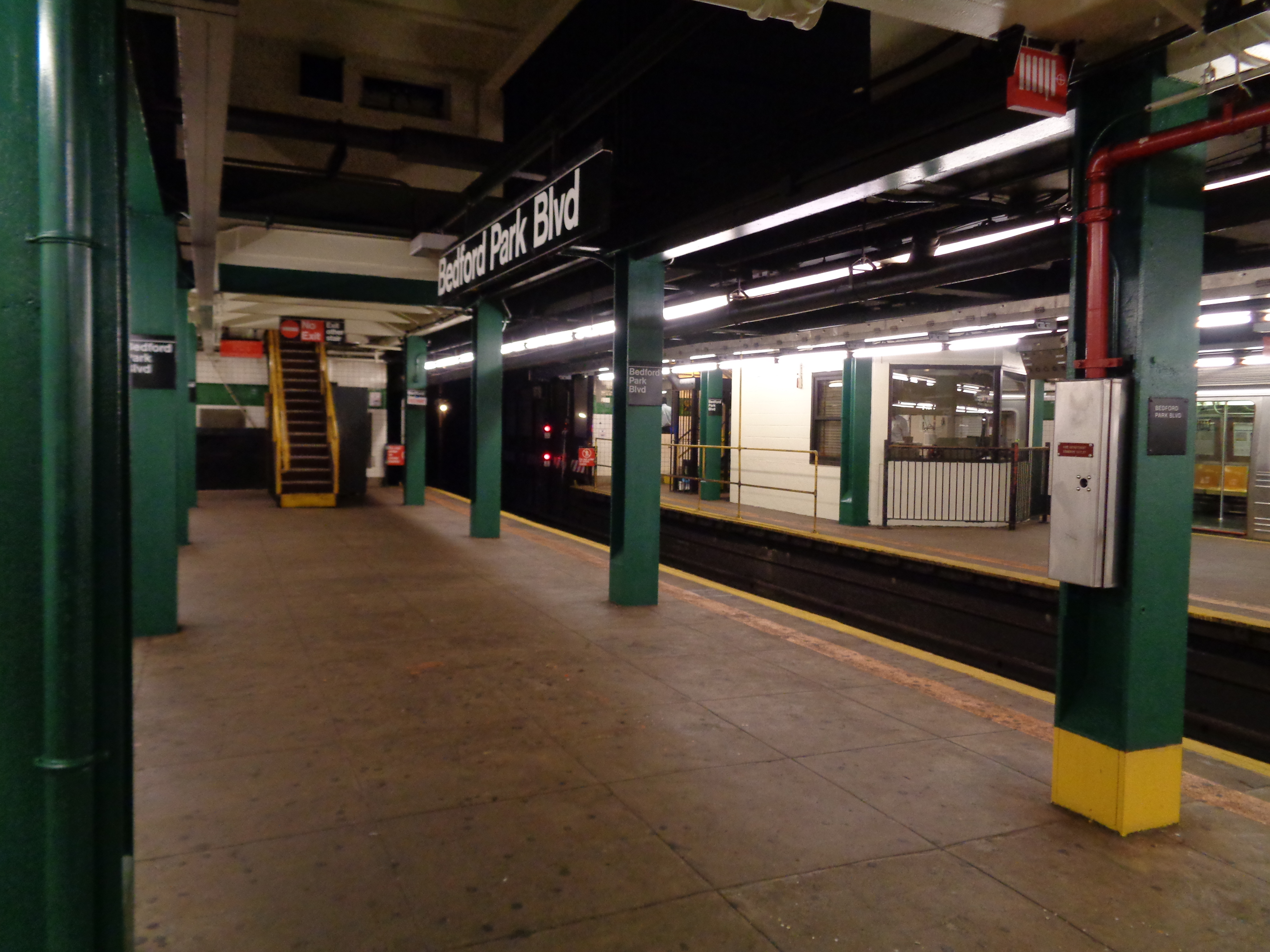 Looking south on the Norwood-bound platform of the Bedford Park Boulevard station of the IND Concourse Line in Bedford Park, Bronx. Note the control tower to the right on the Manhattan-bound platform.